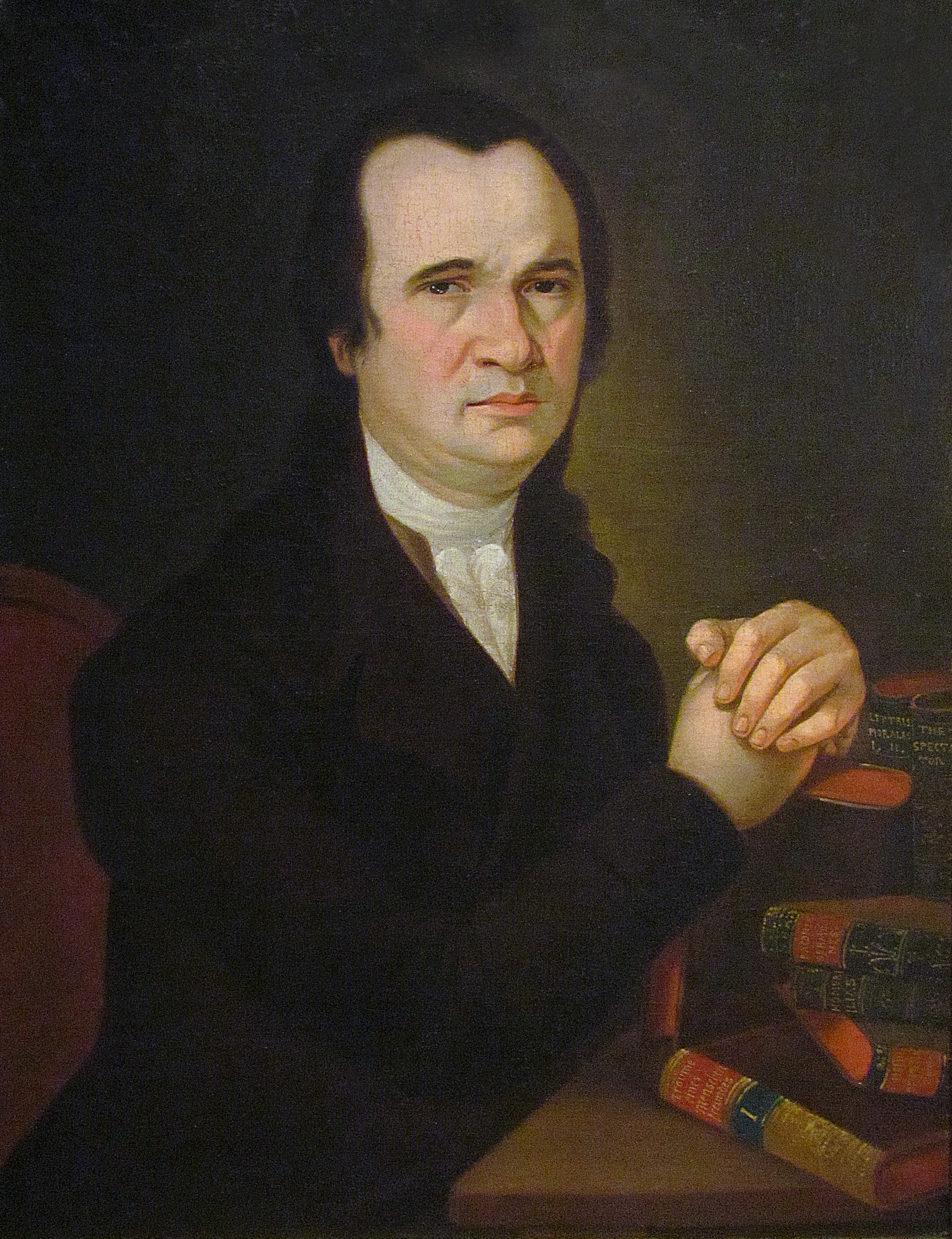 Arsa Teodorović, Dositej Obradović, 1818, oil on canvas, National Museum of Serbia